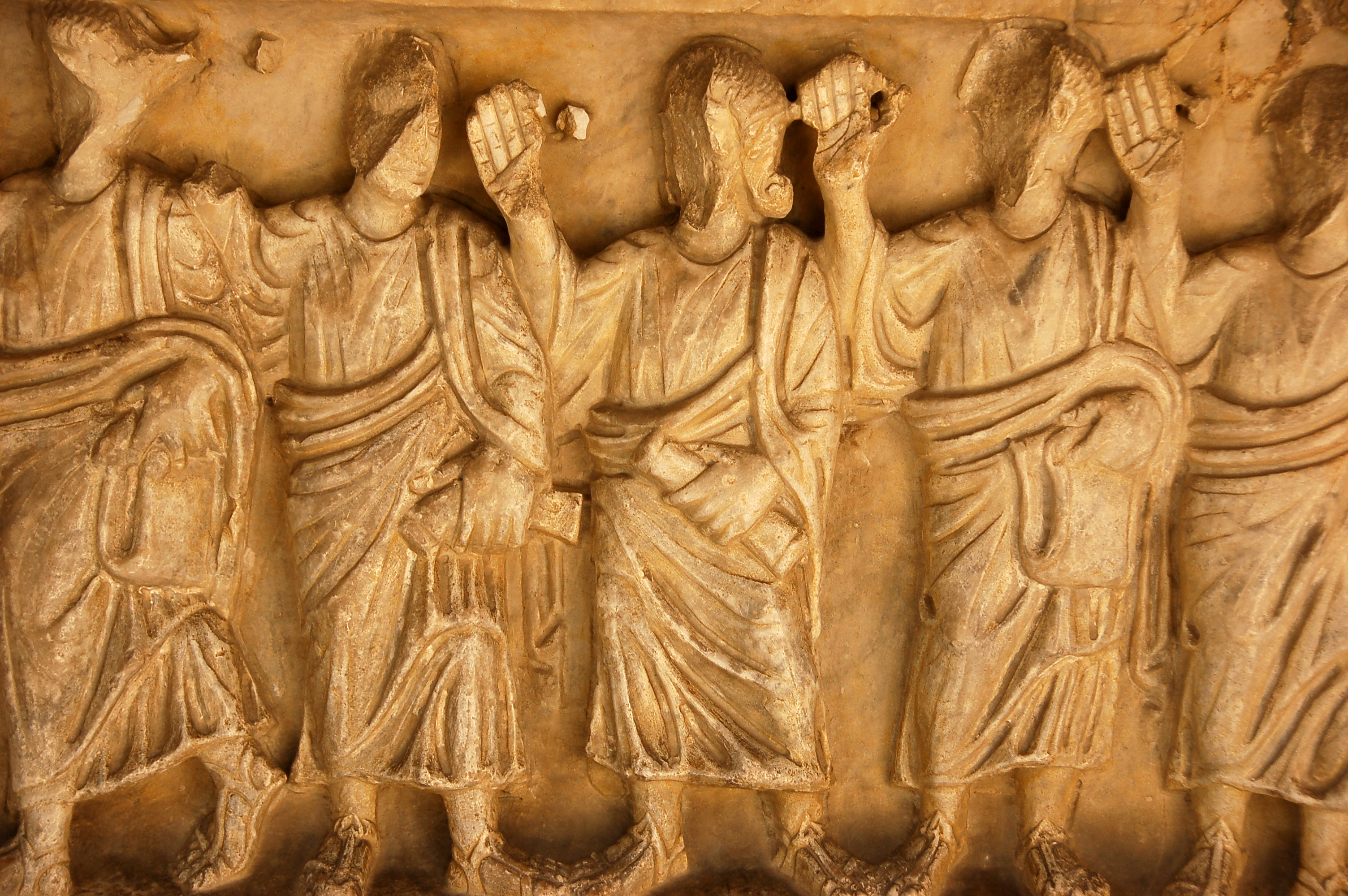 Stonework at the Notre Dame de Nazareth Cathedral in Vaison-la-Romaine, Provence, France